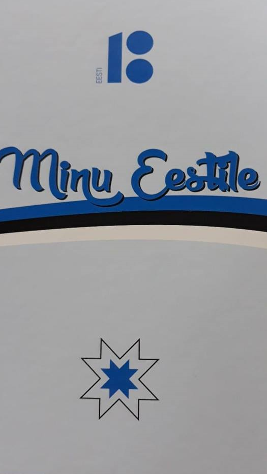 Literature